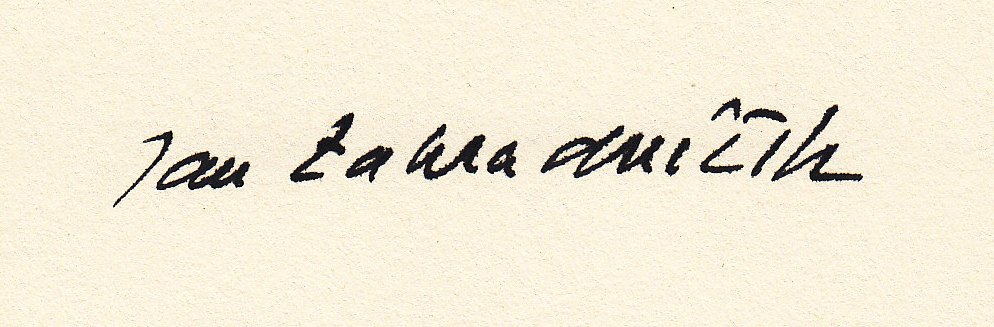 Signature of the Czech poet Jan Zahradníček (1905–1960)